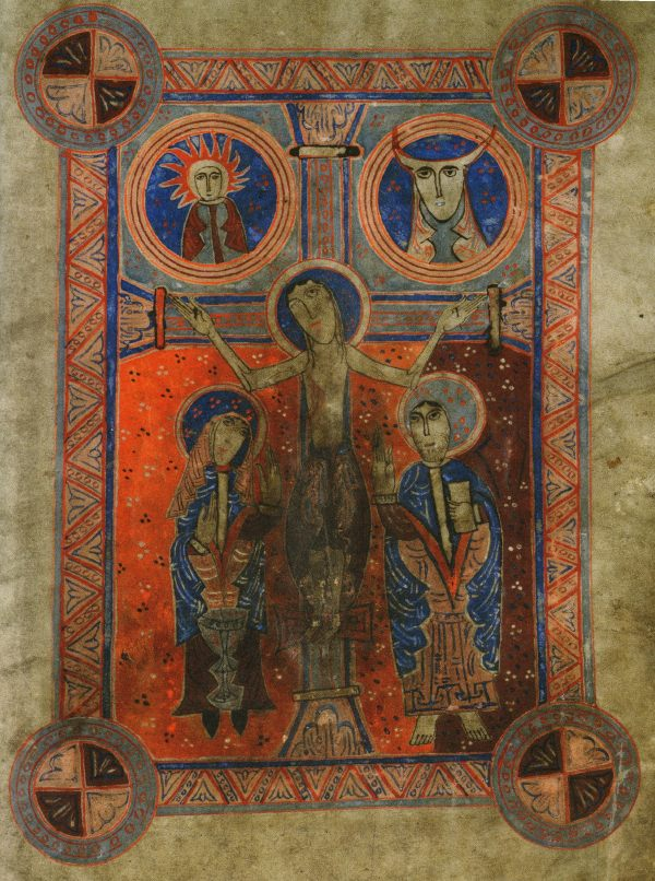 Illustration form the Skara Missal, showing the cruficion of Christ with Saints MAry and John and depictions of Sun and Moon